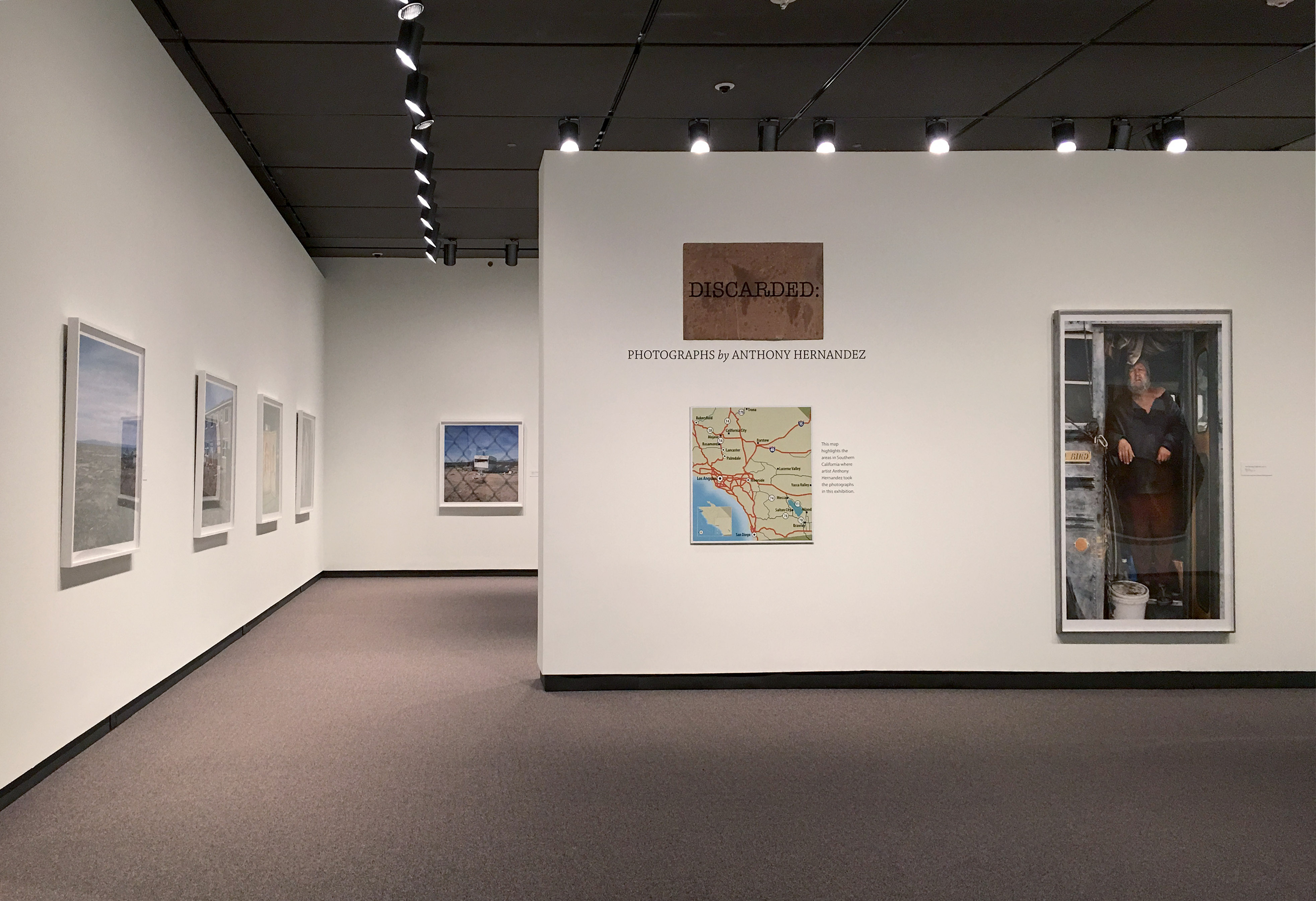 Amon Carter Museum - Anthony Hernandez - Discarded - wall - 2